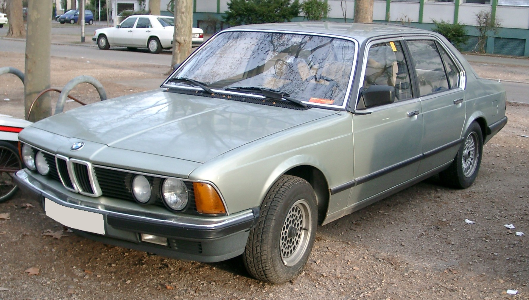 BMW 728i (E23)